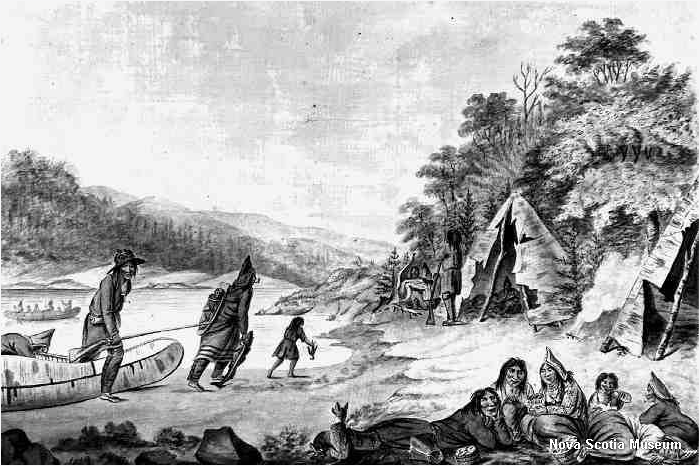 Mi'kmaw Encampment by Hibbert Binney, c.1791, Nova Scotia Museum